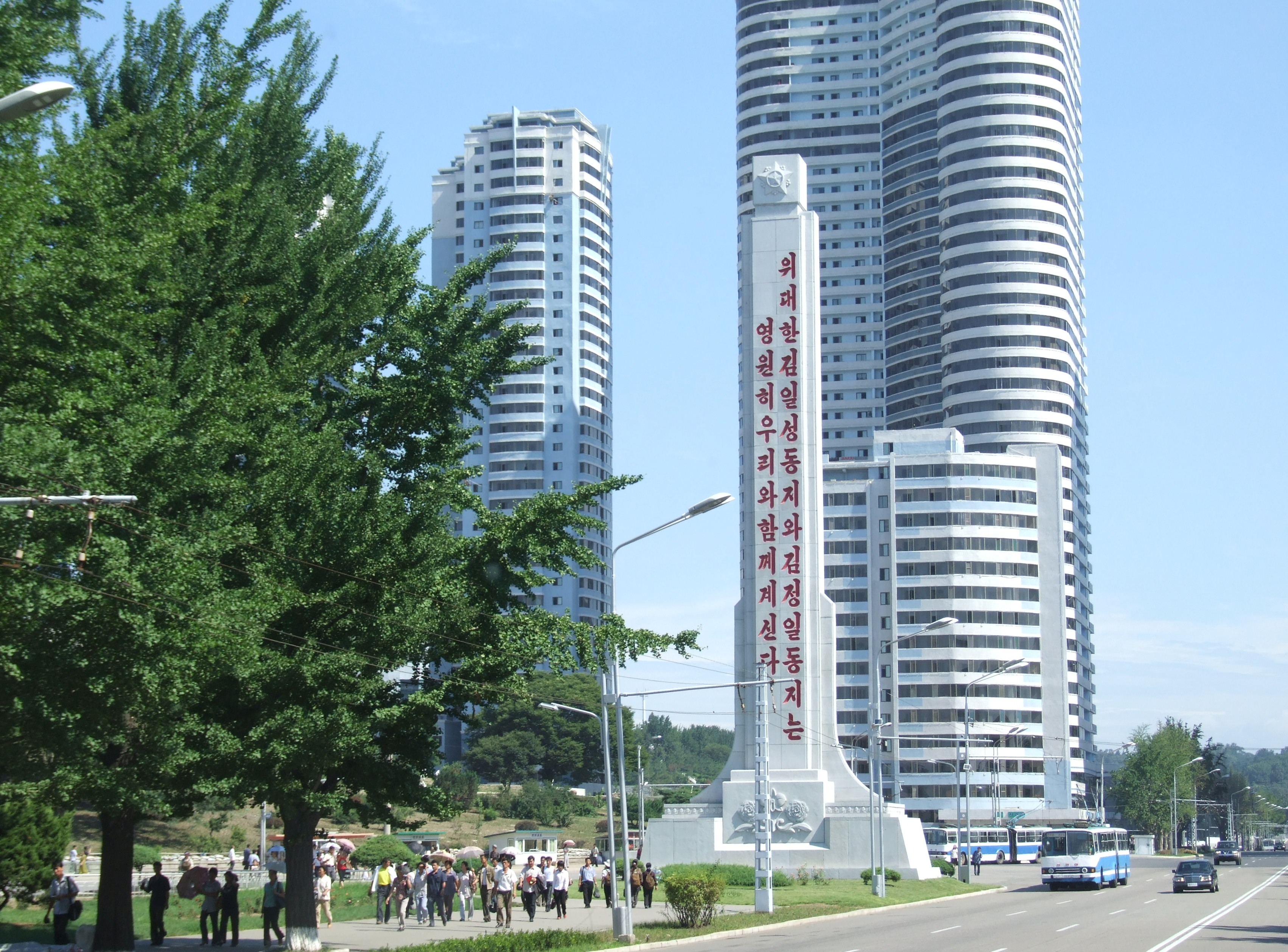 Immortality Tower to Kim Jong-il and Kim Il-sung in Pyongyang